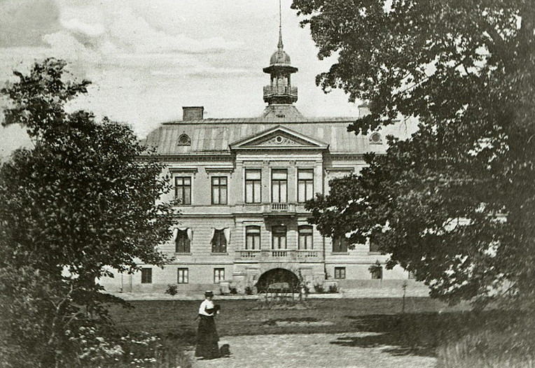 Bro gård från syd